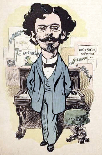 French singer-songwriter Pierre Trimouillat (1858-1929). Illustration by Fernand Fau (1858-1919) in Les Hommes d'aujourd'hui, No. 413.